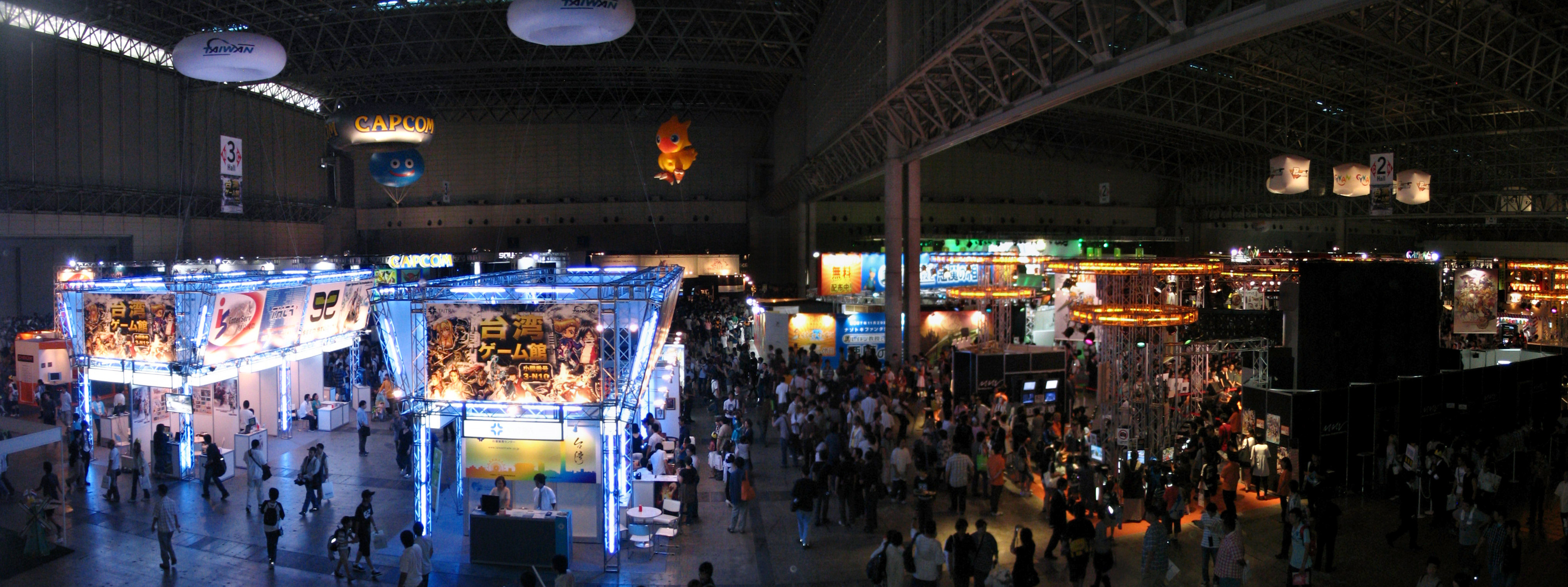 The other show floor at Tokyo Game Show 2007